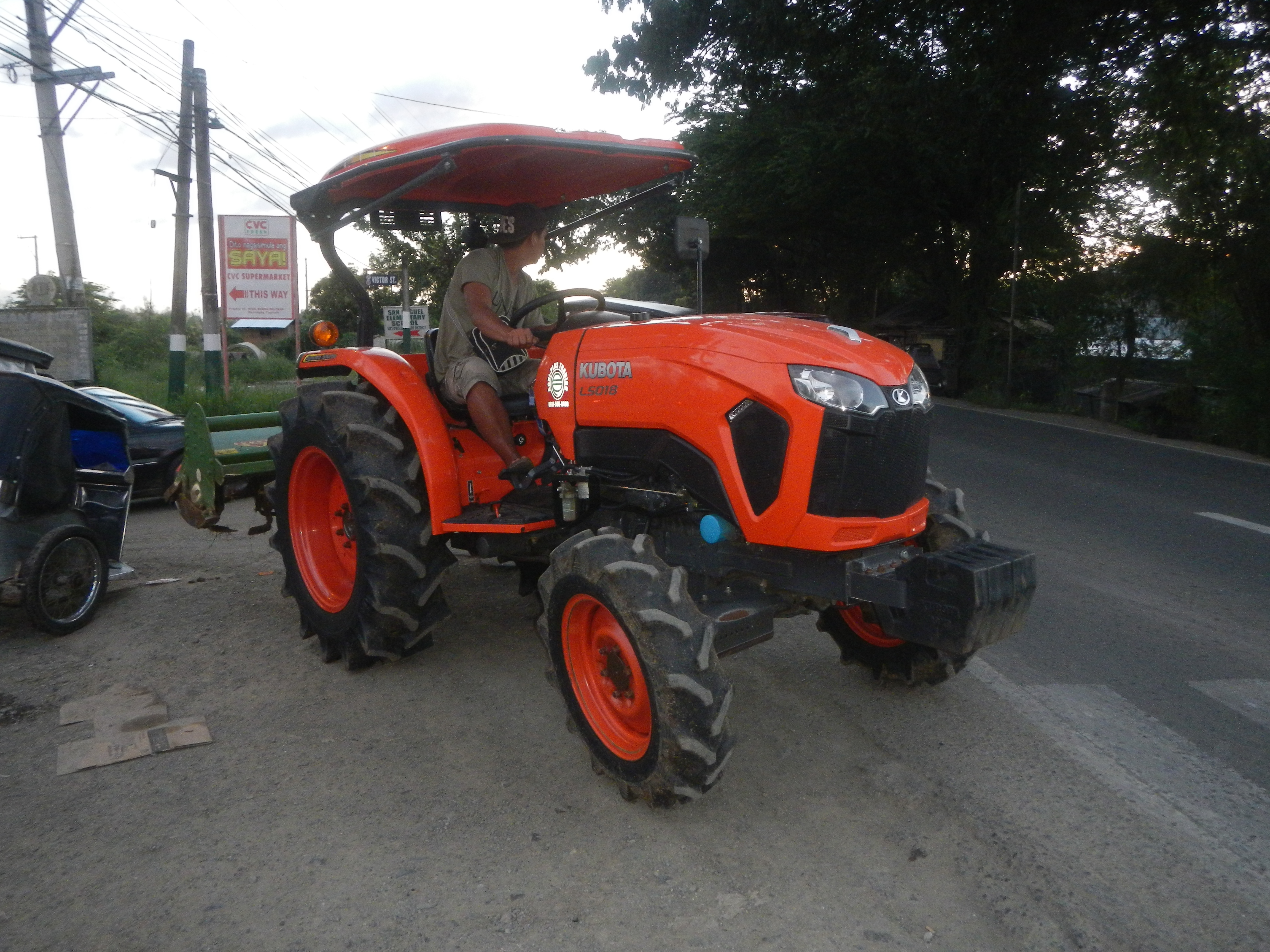 Kubota L-5018